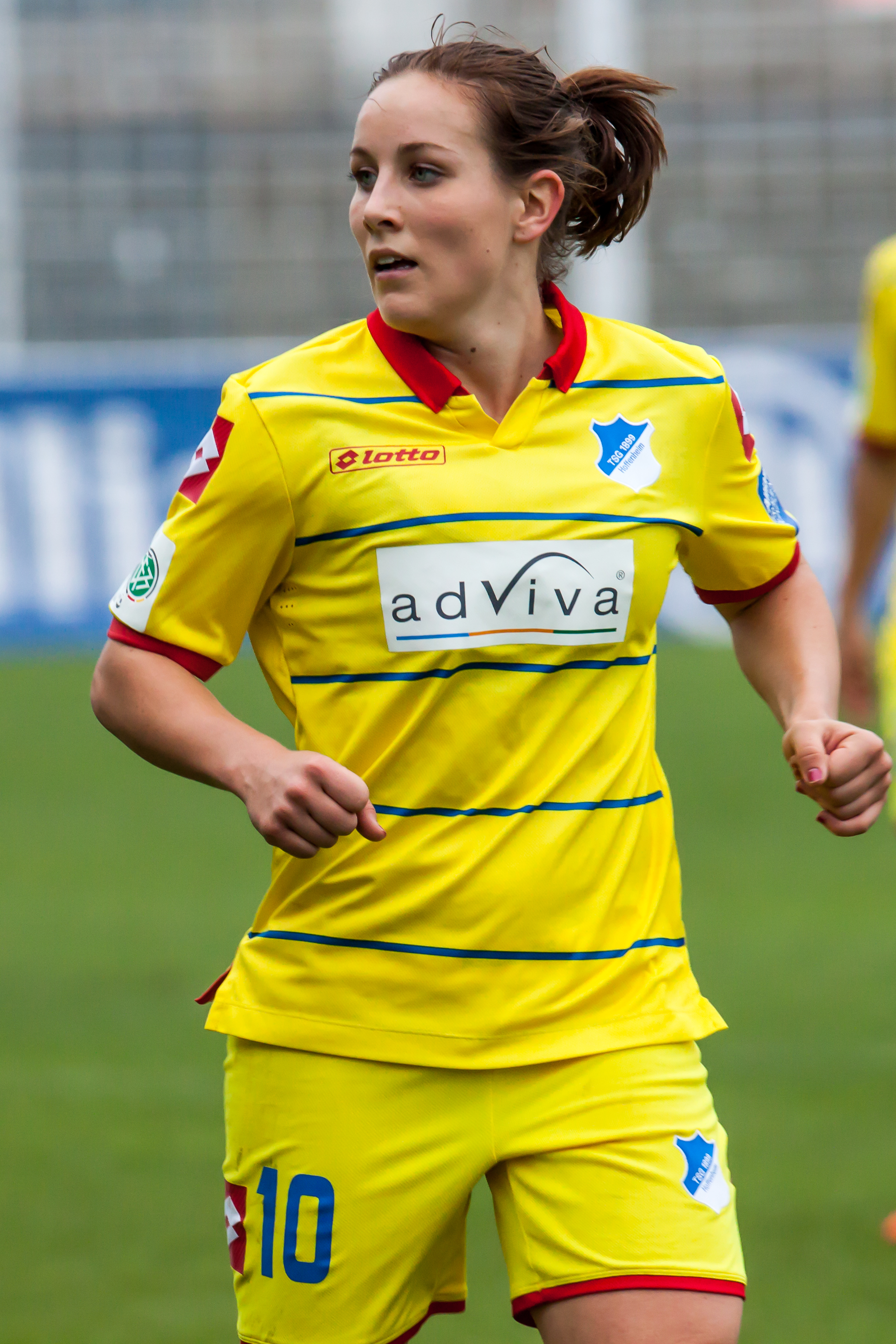 German Women Bundesliga soccer game: FF USV Jena vs. TSG 1899 Hoffenheim, 2014-10-11, at Ernst-Abbe-Sportfeld Jena.